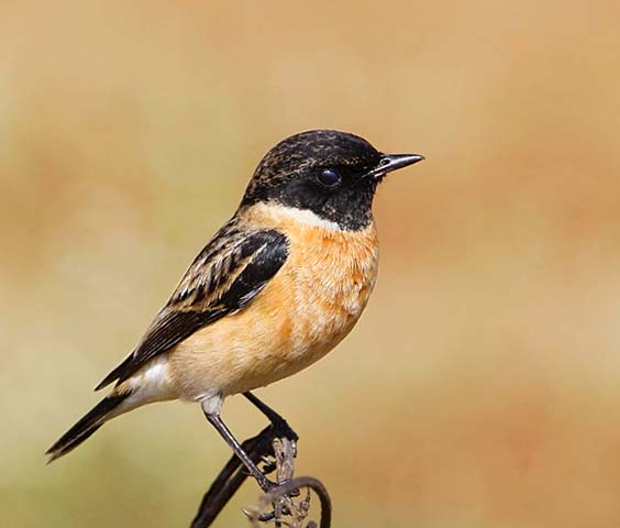 Saxicola maurus, from Aralam Wildlife Sanctuary, Kannur, India